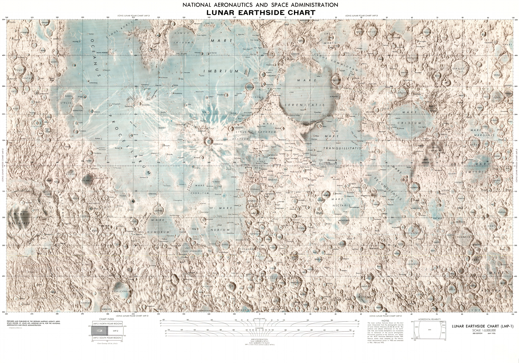 1 : 500.000 map of lunar earthside. Equirectangular projection.